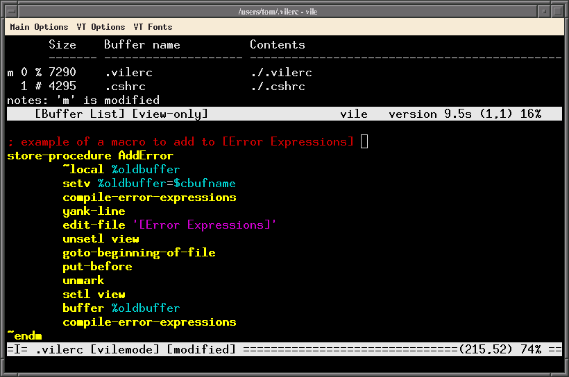 Example of vile (text editor) running in xterm, to help illustrate dynamic buffers. The size shown, and flags in the [Buffer List] are updated as corresponding buffers are modified. Screenshot by Thomas Dickey